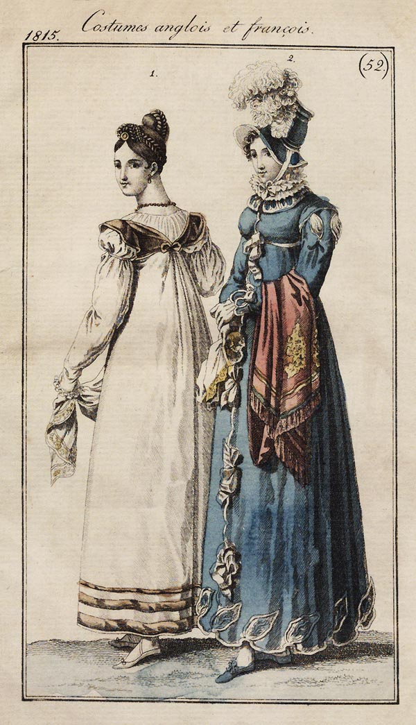 Fashion plate of English and French costumes for 1815